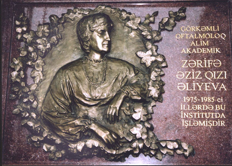 Bas relief on the wall of A.I.Karaev Institute of Physiology of Azerbaijan National Academy of Sciences, where Academician Zarifa Aliyeva worked